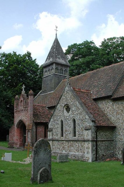 St Mary, Meesden, Herts